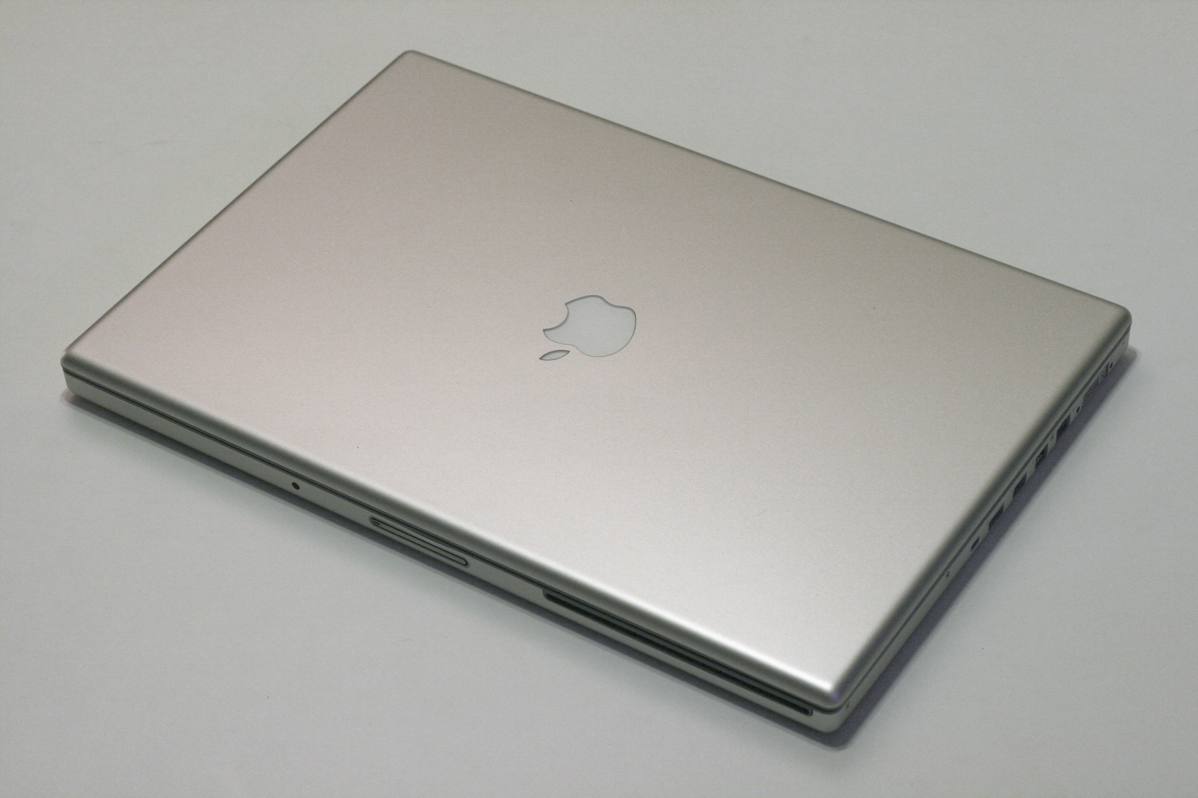 A Late 2006 model 17" MacBook Pro resting on a table with its lid closed.